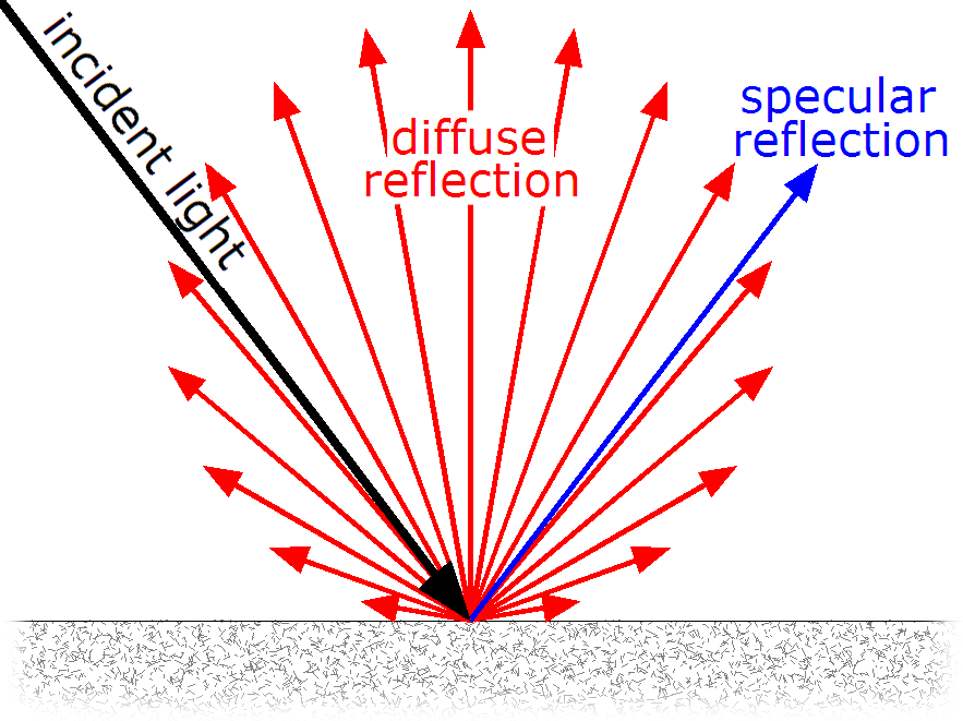 Diffuse and specular reflection from a glossy surface, e.g. polished marble. The quantity illustrated is luminous intensity, which varies according to Lambert's cosine law for a perfect diffuse reflector.